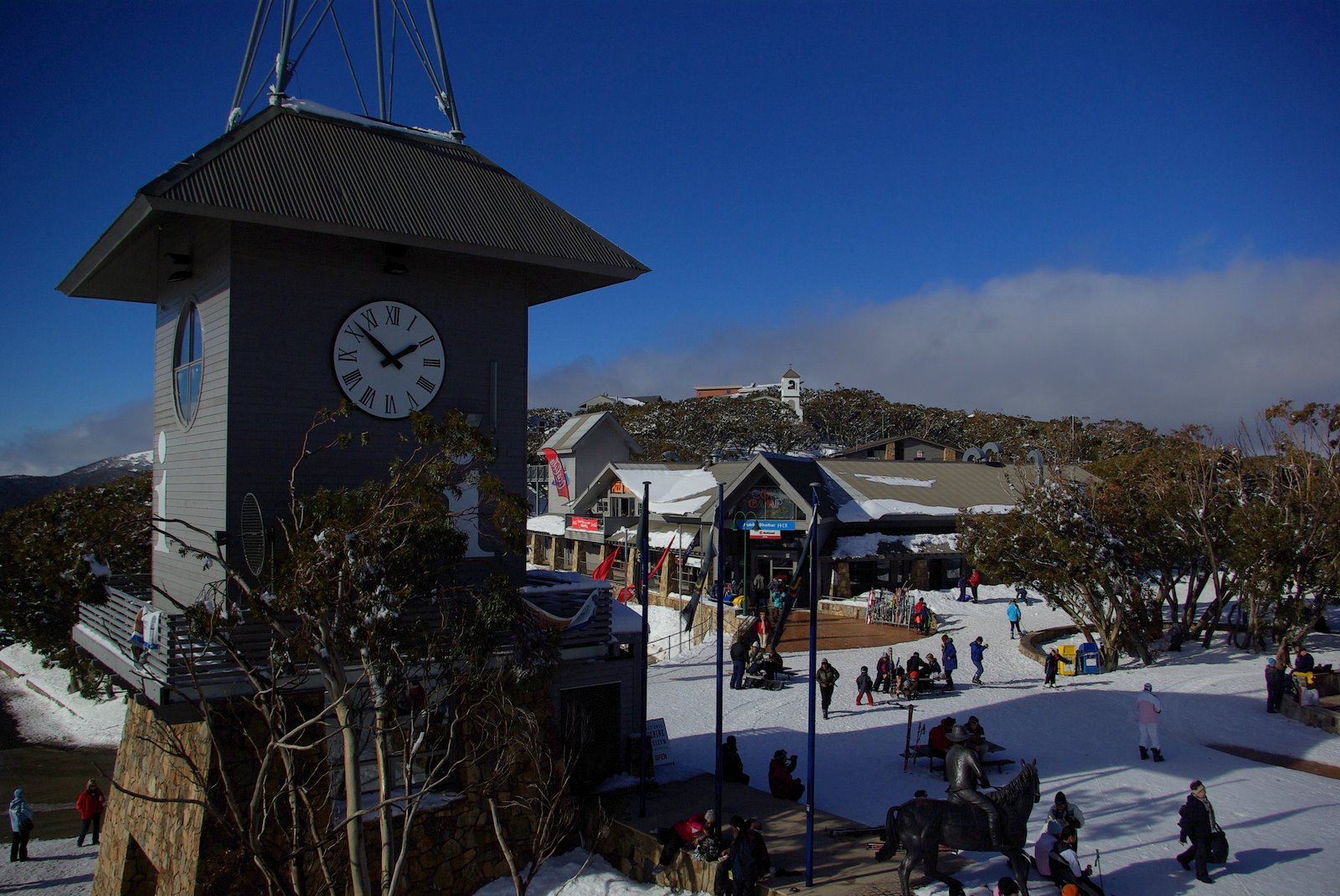 A view over the central part of the Mt Buller village .